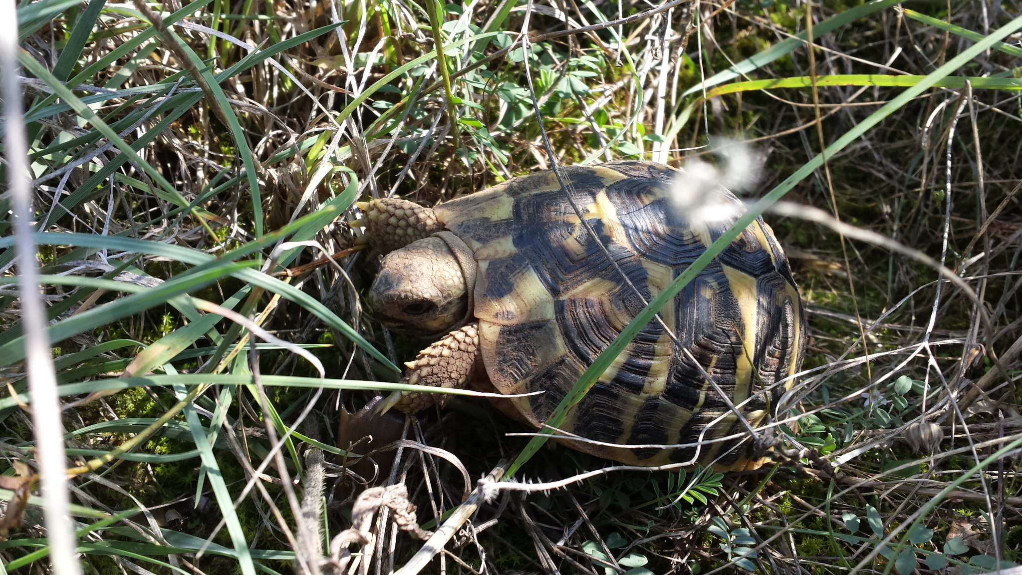 A female Testudo hermanni hermanni feeding on wild grass in Western Apulia, Italy.